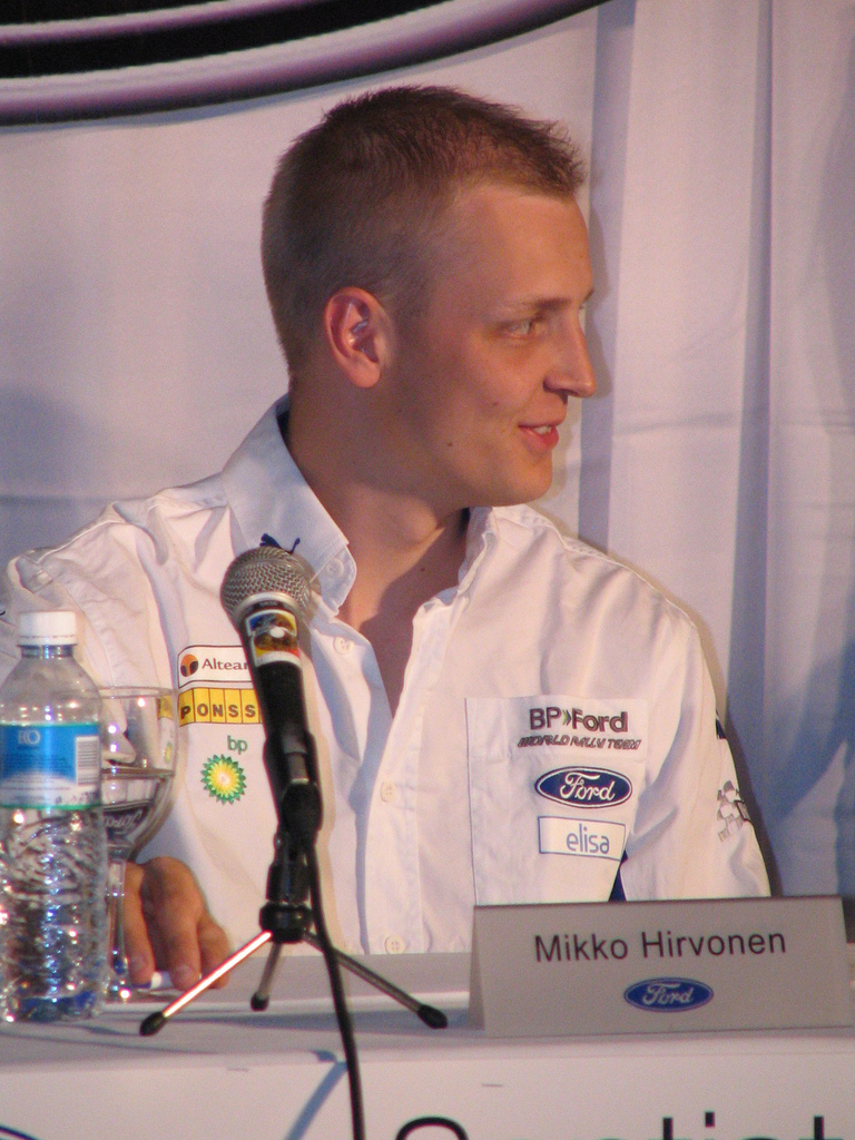 Mikko Hirvonen at a 2006 Rally Argentina press conference.